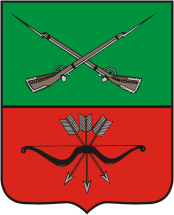 Colored coat of arms of Alexandrovsk (modern Zaporizhzhya), 1811.